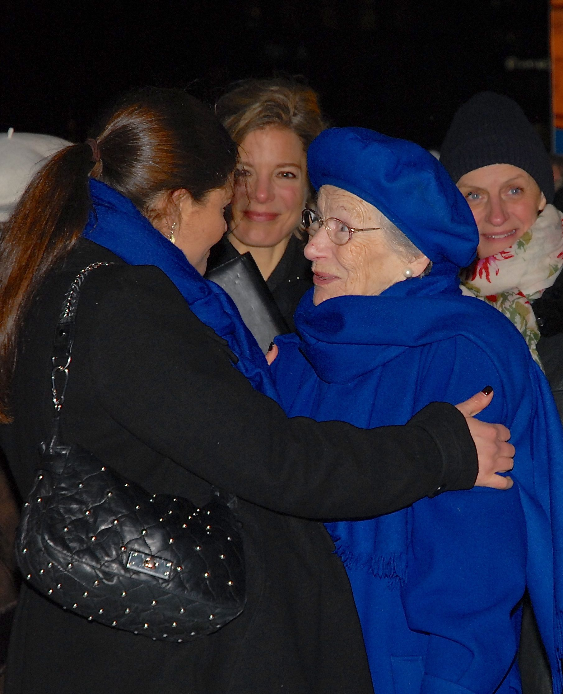 January 27 2012, Holocaust Remembrance Day. 100 years ago, Raoul Wallenberg was born. Memorial Ceremony at the Raoul Wallenberg Square in Stockholm with Holocaust survivors. Mr Eskil Franck, Director of the Living History Forum, Kofi Annan and Per Westerberg. Participants: Crown Princess Victoria and Prince Daniel, Nina Lagergren, Georg Klein and Hédi Fried, among others.